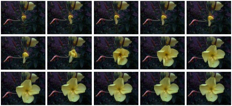 An evening primrose opening at night. I took these pictures in Sewickley, PA on July 8th, 2005 at around 9pm. The exposures are each 0.25 seconds, with about 2 seconds between shots. The images have been brightened. Originals and larger versions may be viewed at